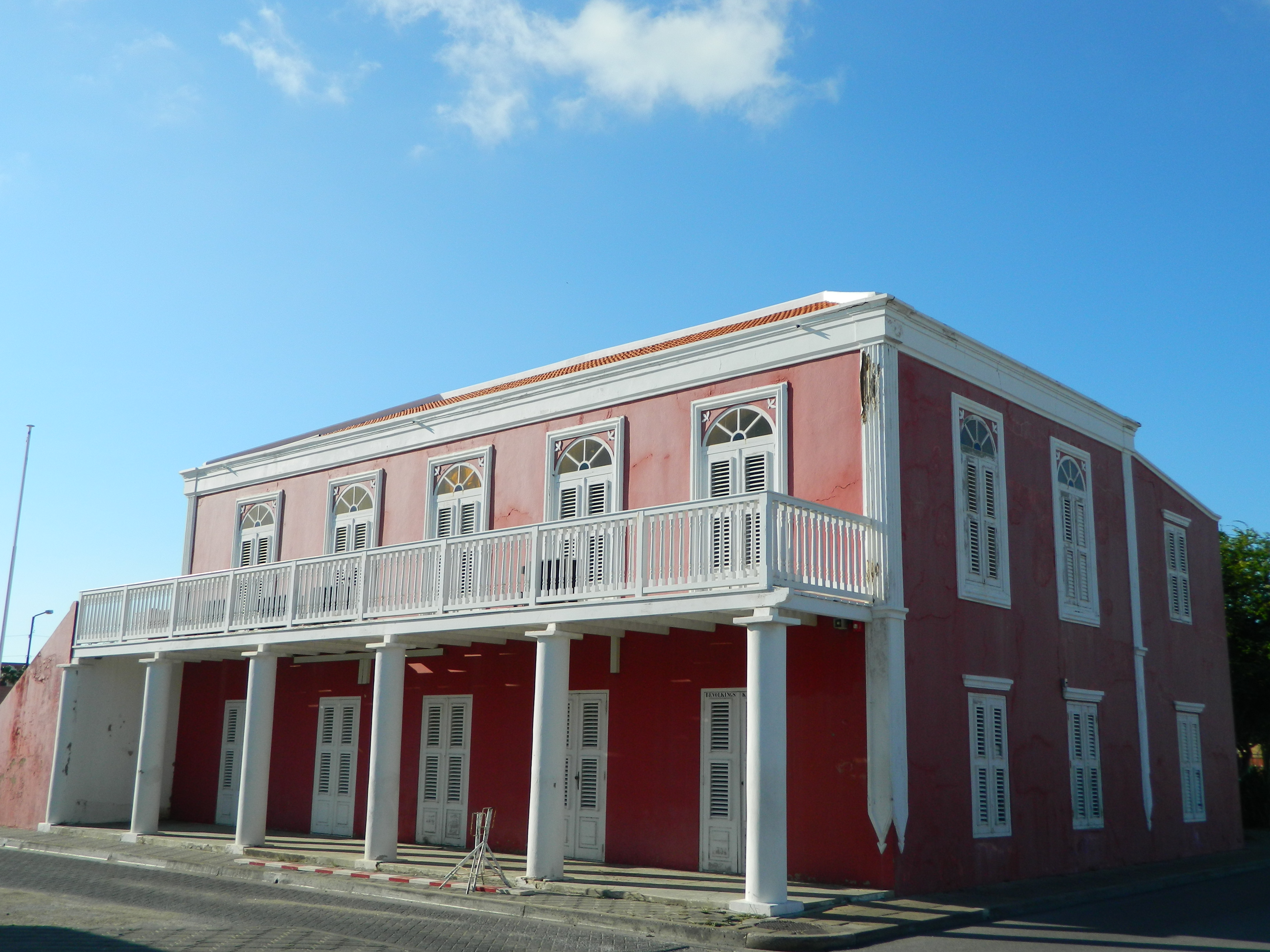 Censo, Ex Hotel Colombia, Oranjestad, ARUBA